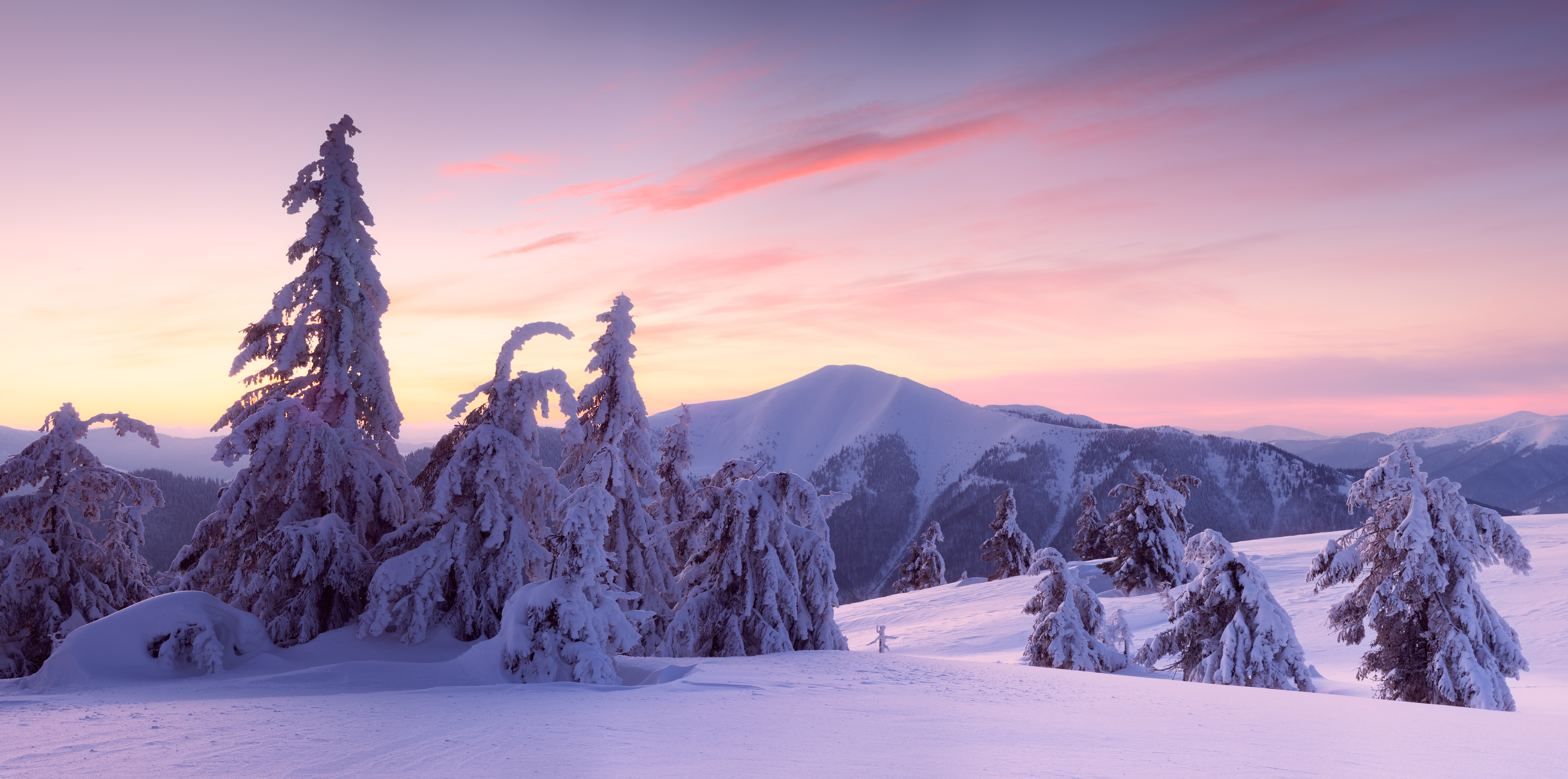 Strymba Mountain in winter. Carpathians, Ukraine